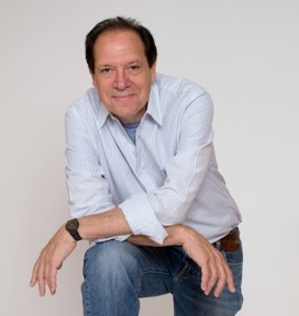 Press photo of playwright Ken Ludwig Other information This photo was taken as part of a press shoot that I paid for personally. I have permission to use this photograph in any way I wish and to send it to others to be published online or in print.